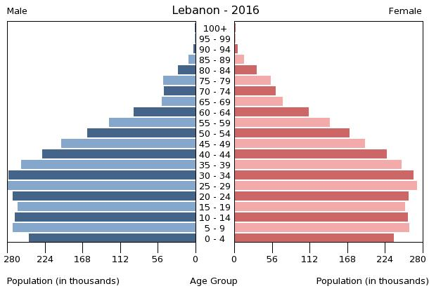 The population pyramid of Lebanon illustrates the age and sex structure of population and may provide insights about political and social stability, as well as economic development. The population is distributed along the horizontal axis, with males shown on the left and females on the right. The male and female populations are broken down into 5-year age groups represented as horizontal bars along the vertical axis, with the youngest age groups at the bottom and the oldest at the top. The shape of the population pyramid gradually evolves over time based on fertility, mortality, and international migration trends.